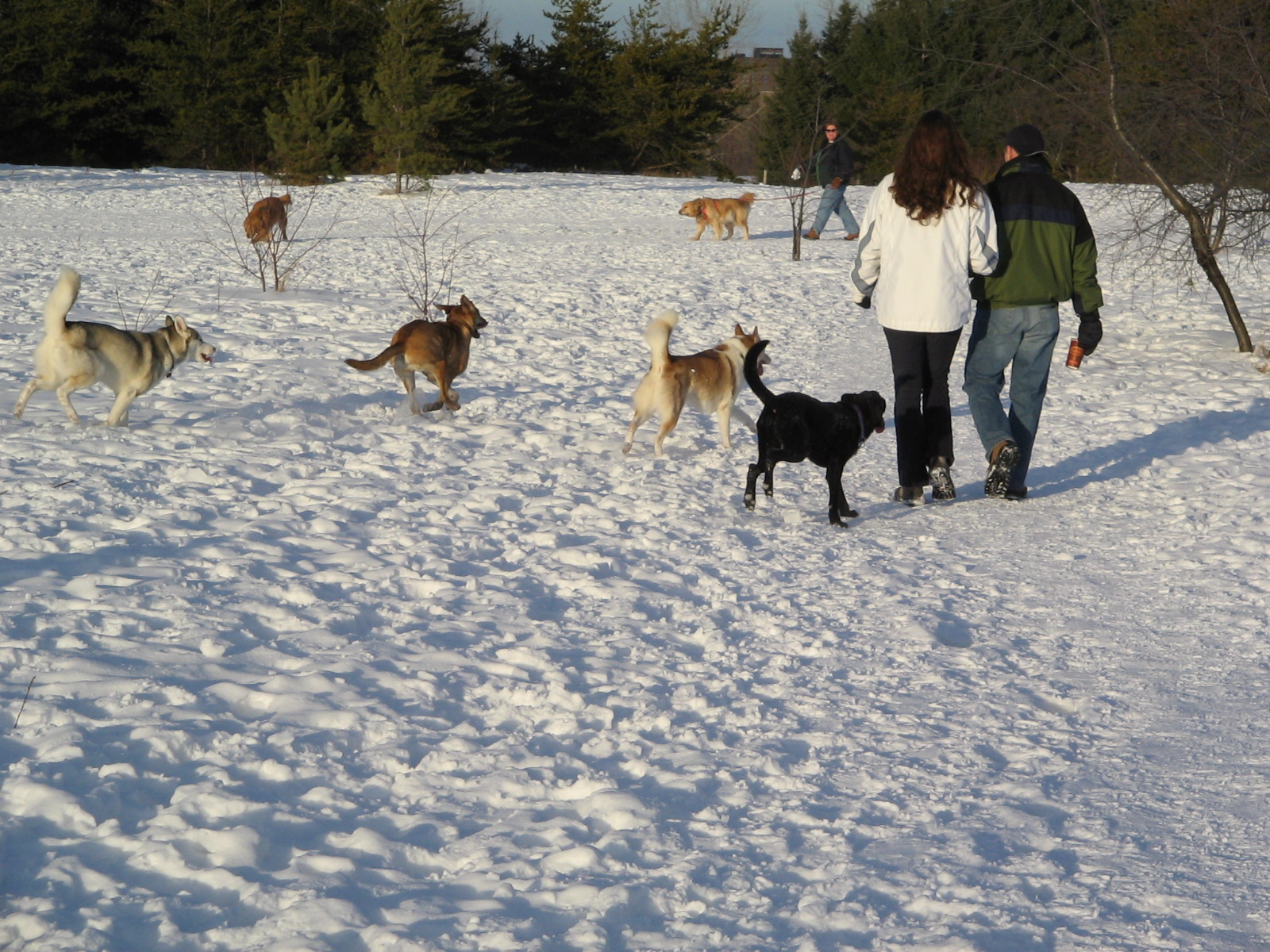 Several dogs running loose and people walking in a snow-clad dog park.